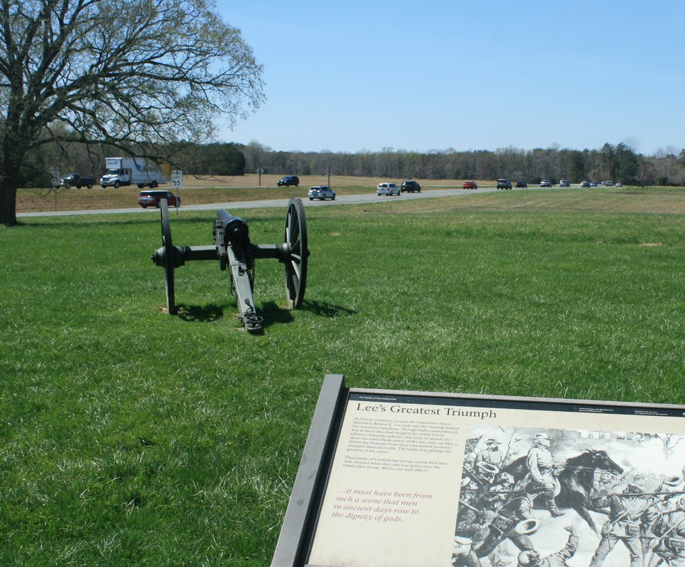 Memorial canon near Chancellor's house